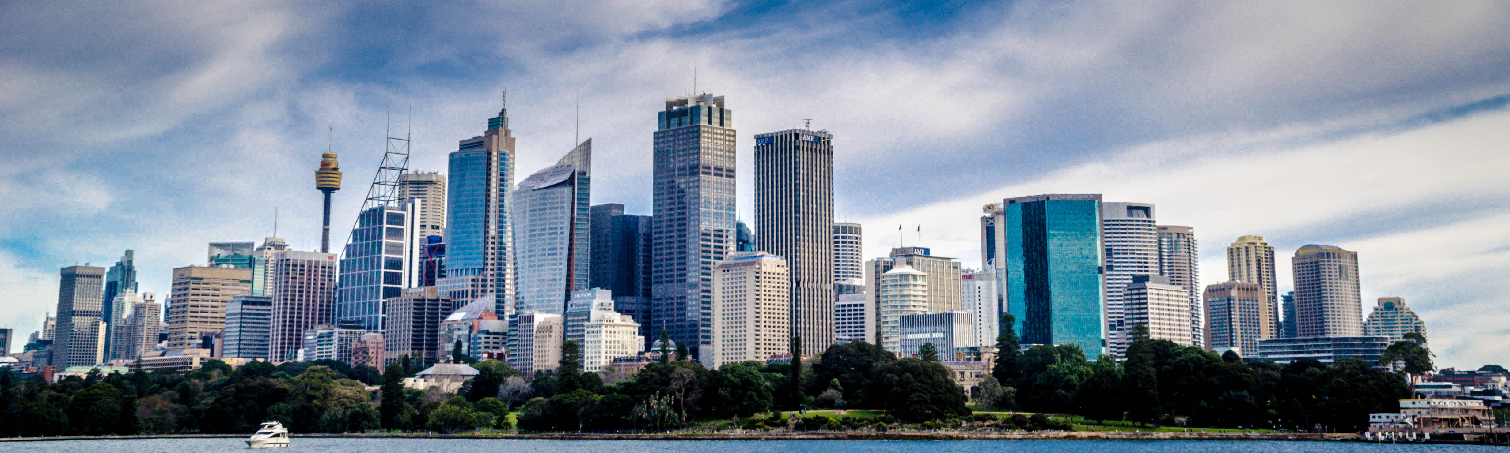 Sydney City Business District